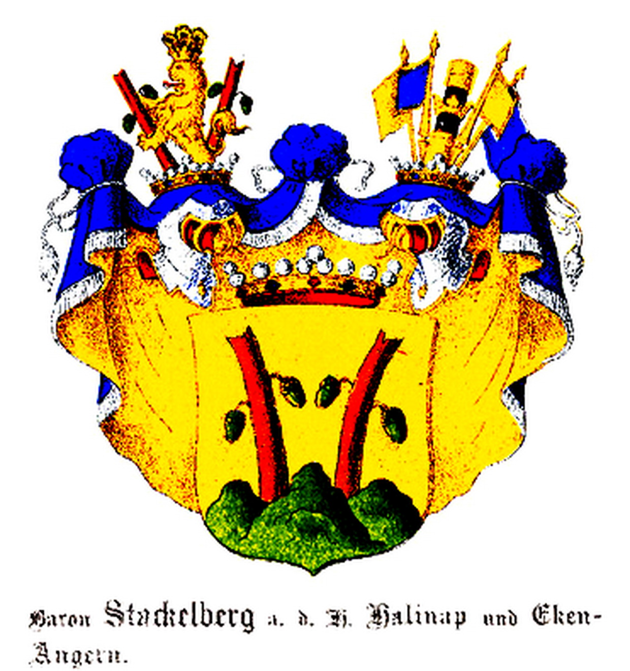 Coat pf arms of Stackelberg family. House of Hallinap and Eichenangern.